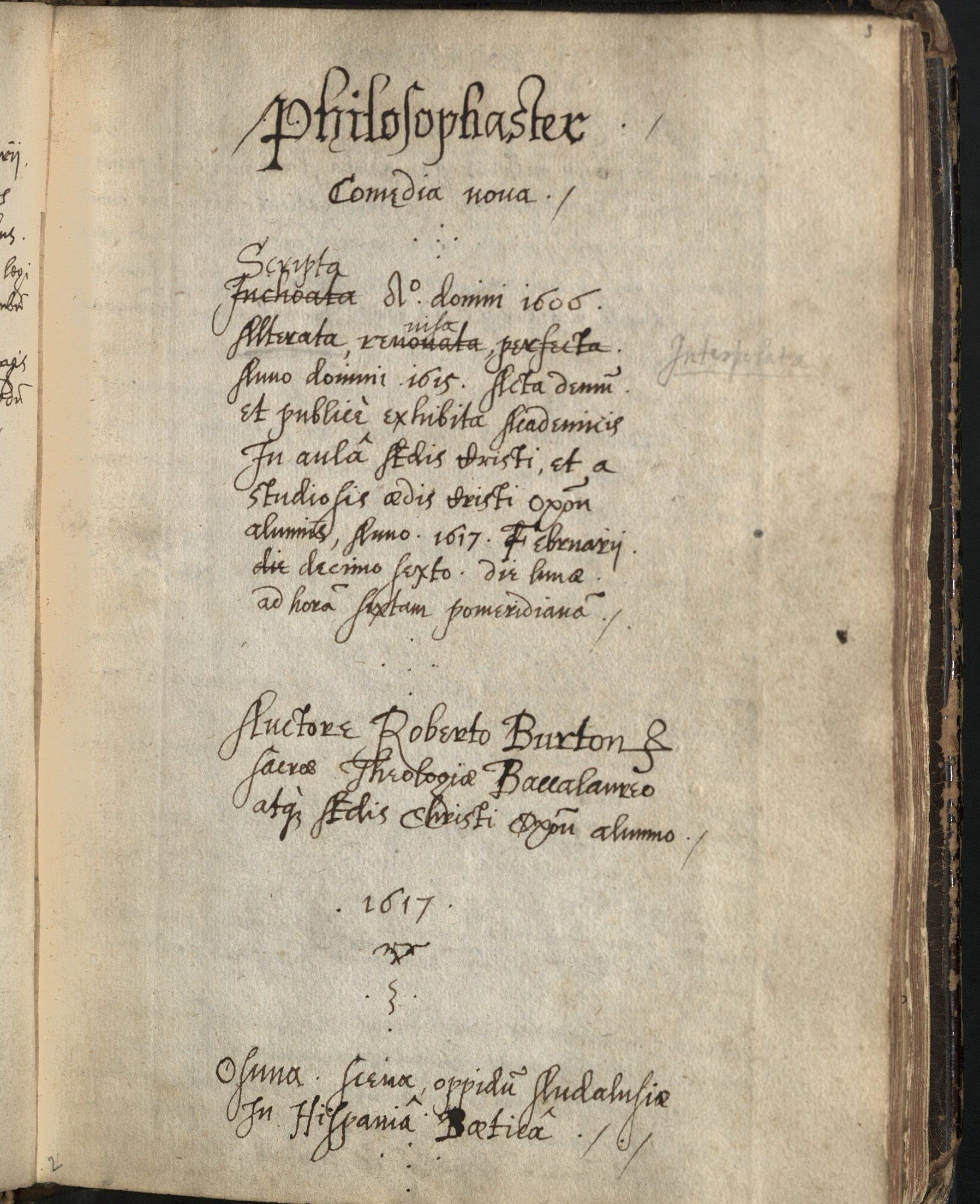 Manuscript title page of Robert Burton's lesser known work, Philosophaster.